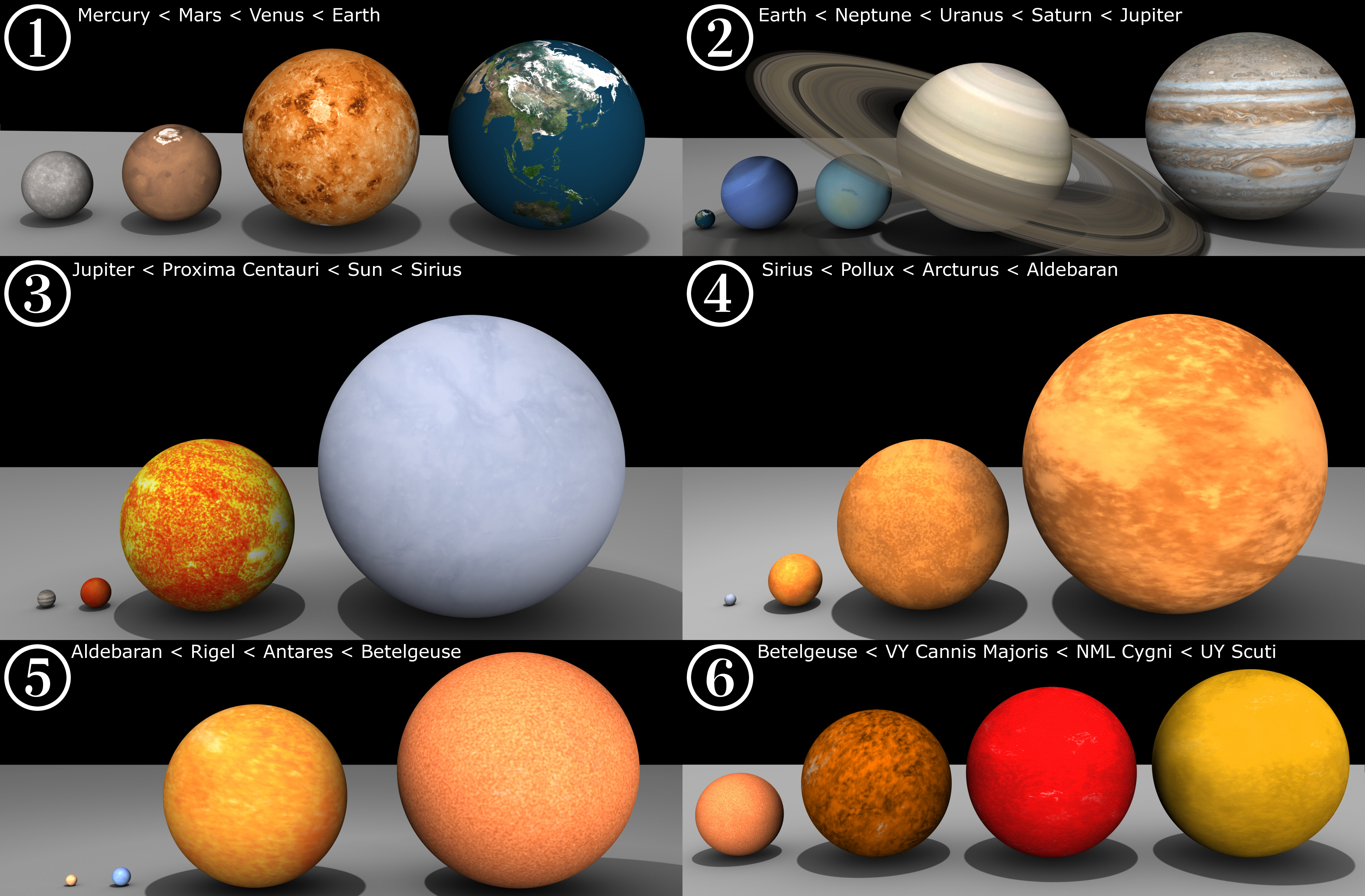 Updated comparison of stars by size